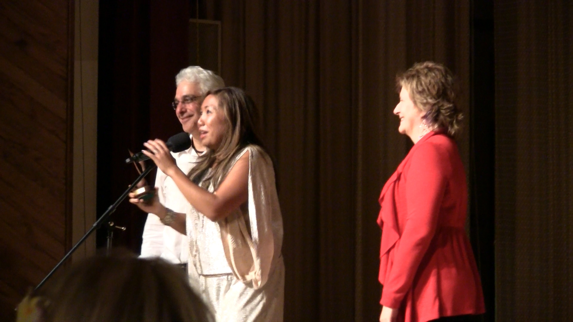 Faith Rivera recieving Grace Note Award for her special contribution to the genre of Posi Music